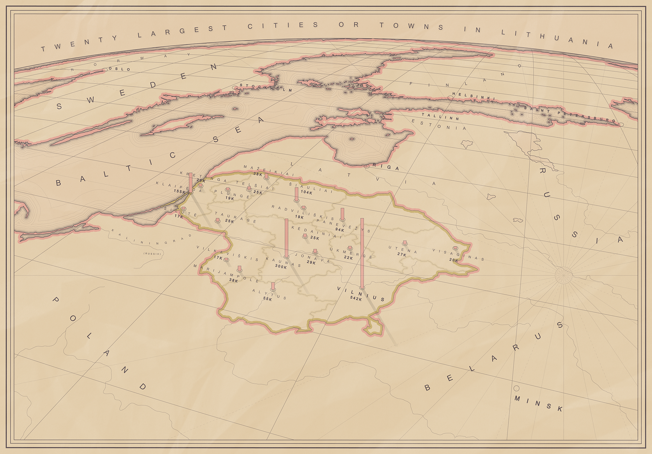 Map of twenty largest cities or towns in Lithuania.